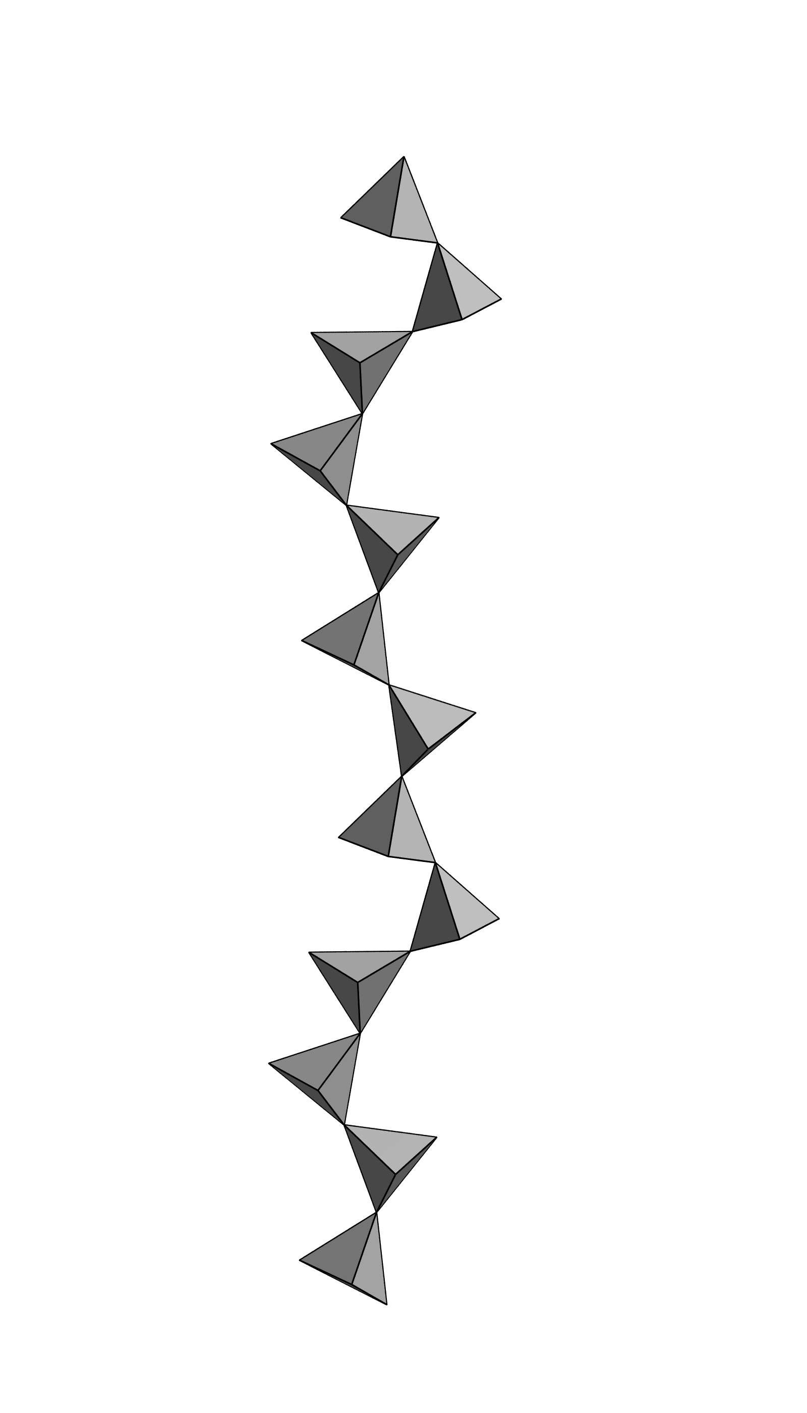 Unbranched siebener single chain of Pyroxferroite Data from: Burnham, C. W. (1971): The crystal structure of pyroxferroite from Mare Tranquillitatis, Proceedings of the Second Lunar Science Conference 1, pp. 47-57 Calculation of image data: Larry W. Finger, Martin Kroeker, and Brian H. Toby, DRAWxtl, an open-source computer program to produce crystal-structure drawings, J. Applied Crystallography V40, pp. 188-192, 2007 Rendering: POVRAY